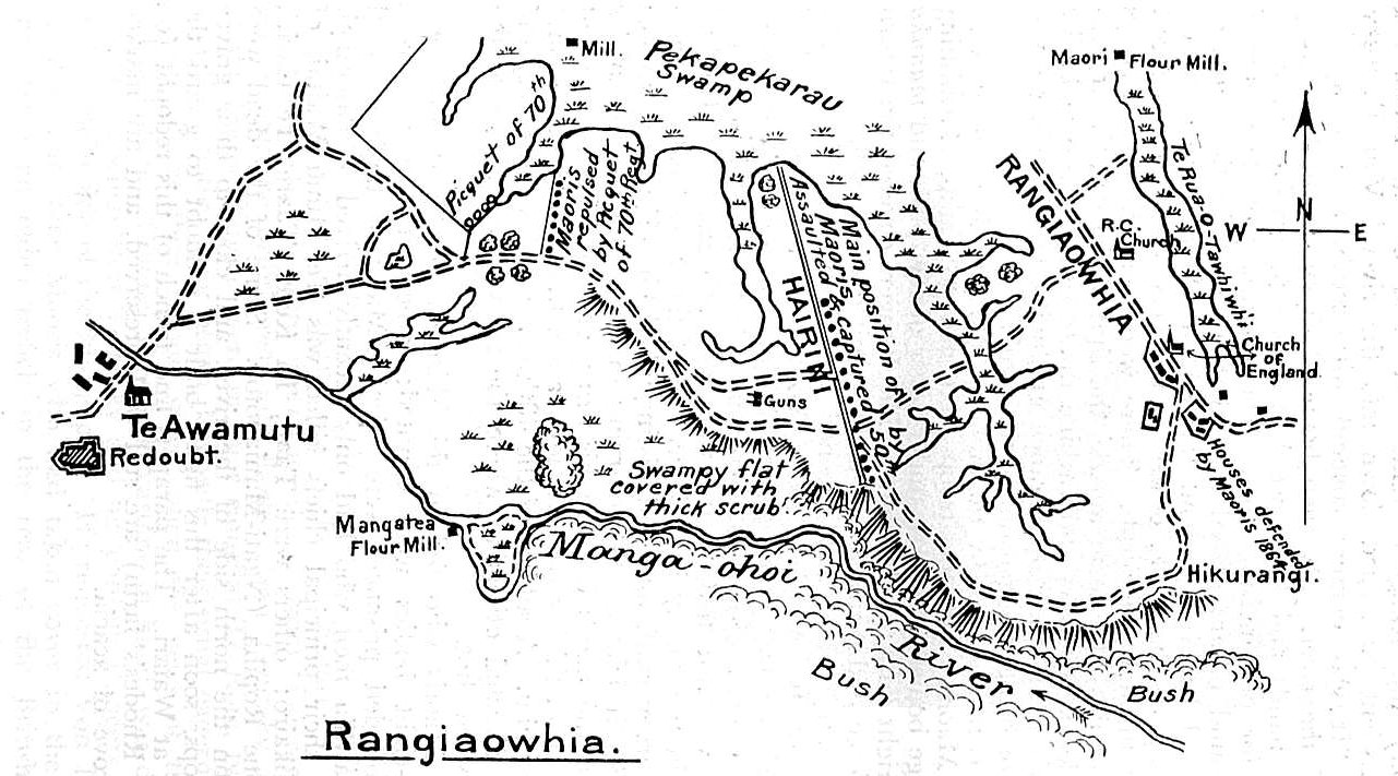 Rangiaowhia. Scene of operations at Rangiaowhia and Hairini. Showing positions captured by the British on the 21st and 22nd February, 1864.